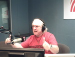 Titus Andrei